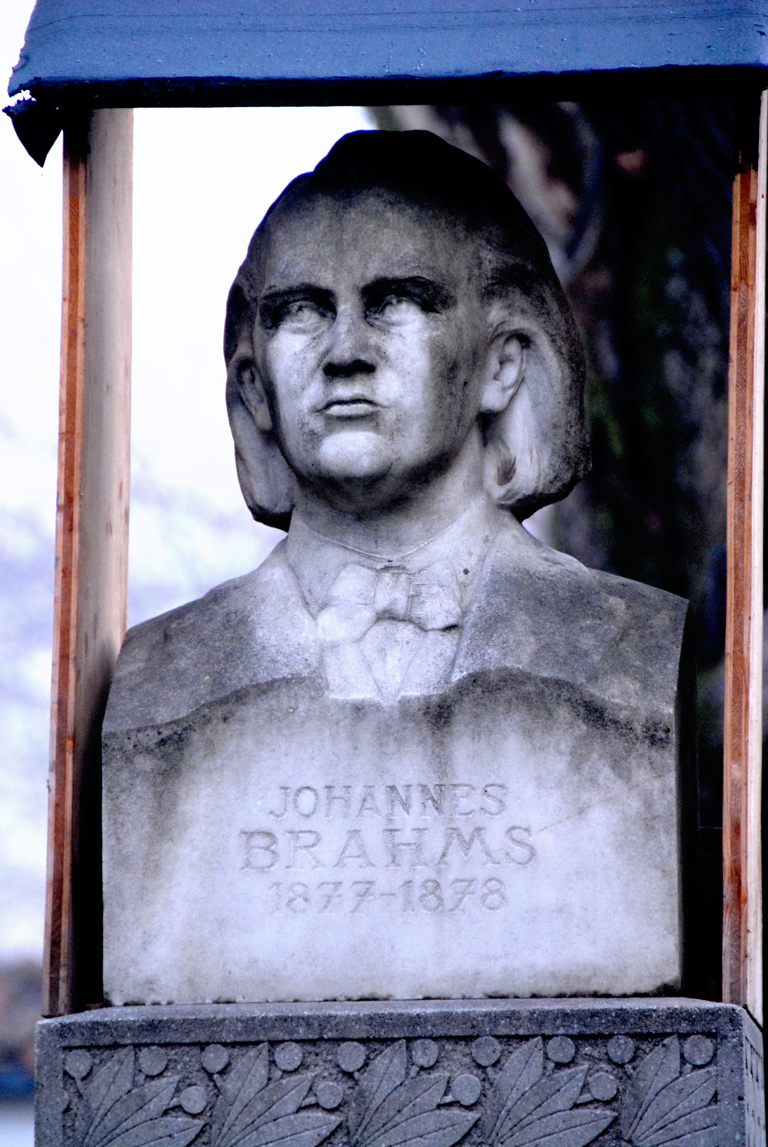 Johannes Brahms` bust in the yard of Castle Leonstain, municipality Poertschach on the Lake Woerth, district Klagenfurt Land, Carinthia, Austria, EU